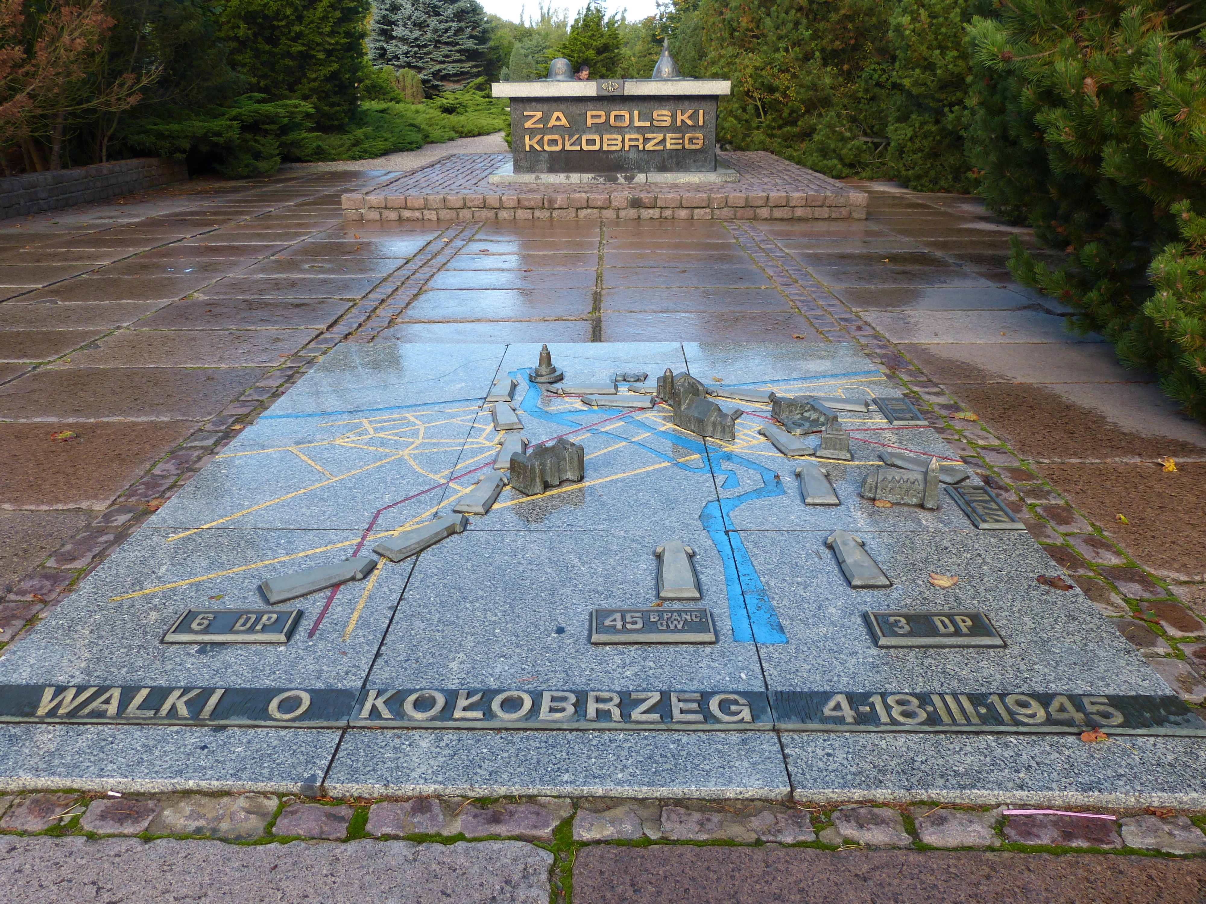 War Cemetery in Kołobrzeg